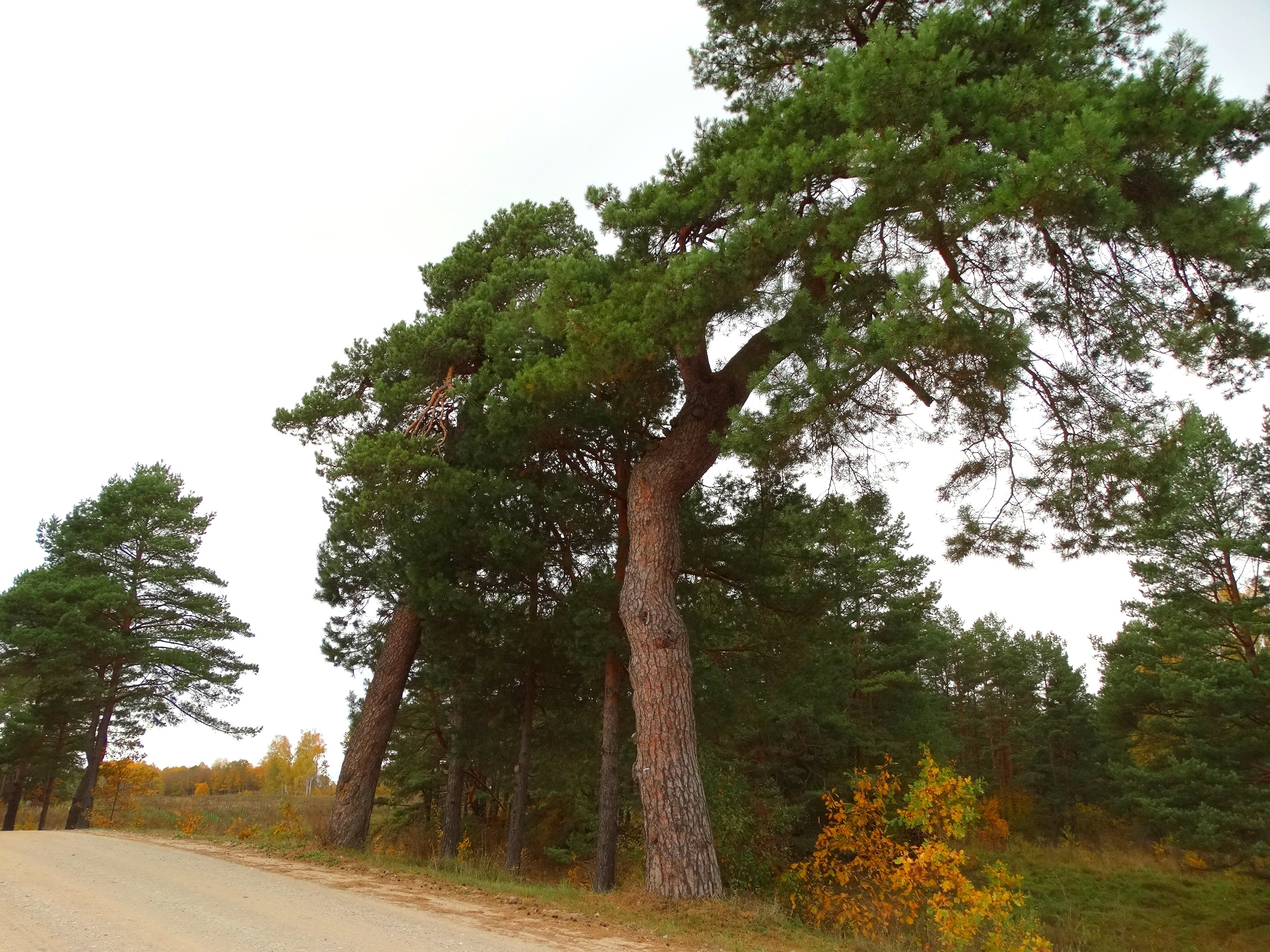 Pine, Paveisiejai, Lazdijai District, Lithuania